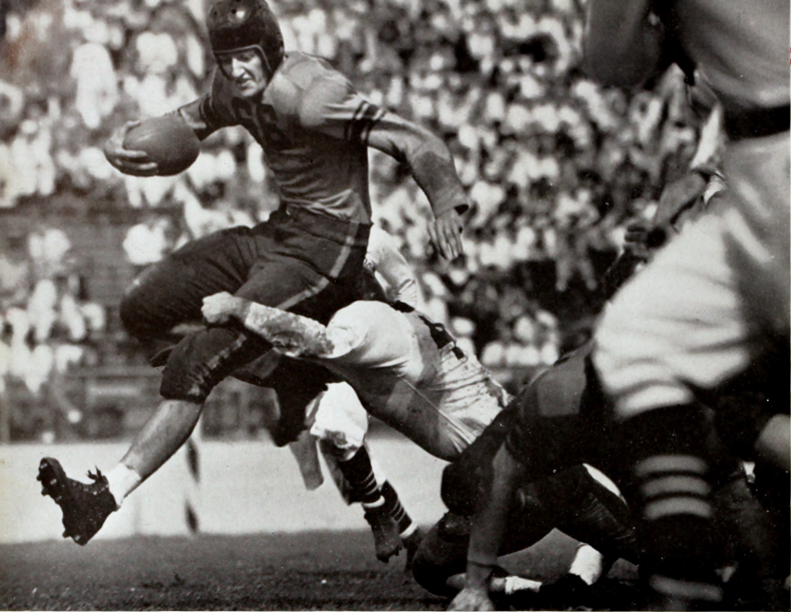 Banks McFadden carries the ball for Clemson in a 1939 game against Tulane.